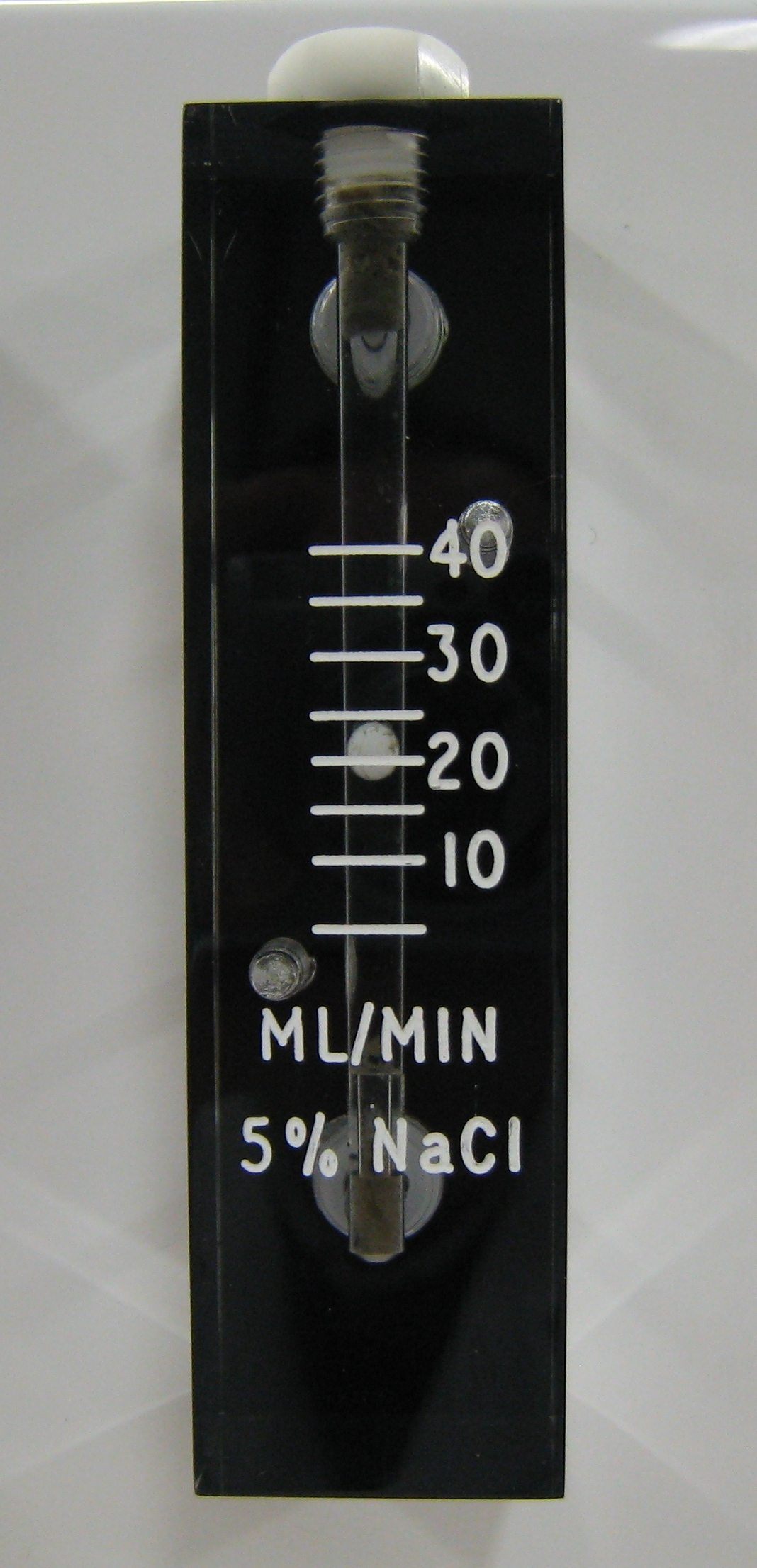 (Salt) water flowmeter with float. Tube with scale in mℓ/min (from 5 to 40). Height=10 cm. This model is included in a laboratory salt spray chamber to perform corrosion tests.